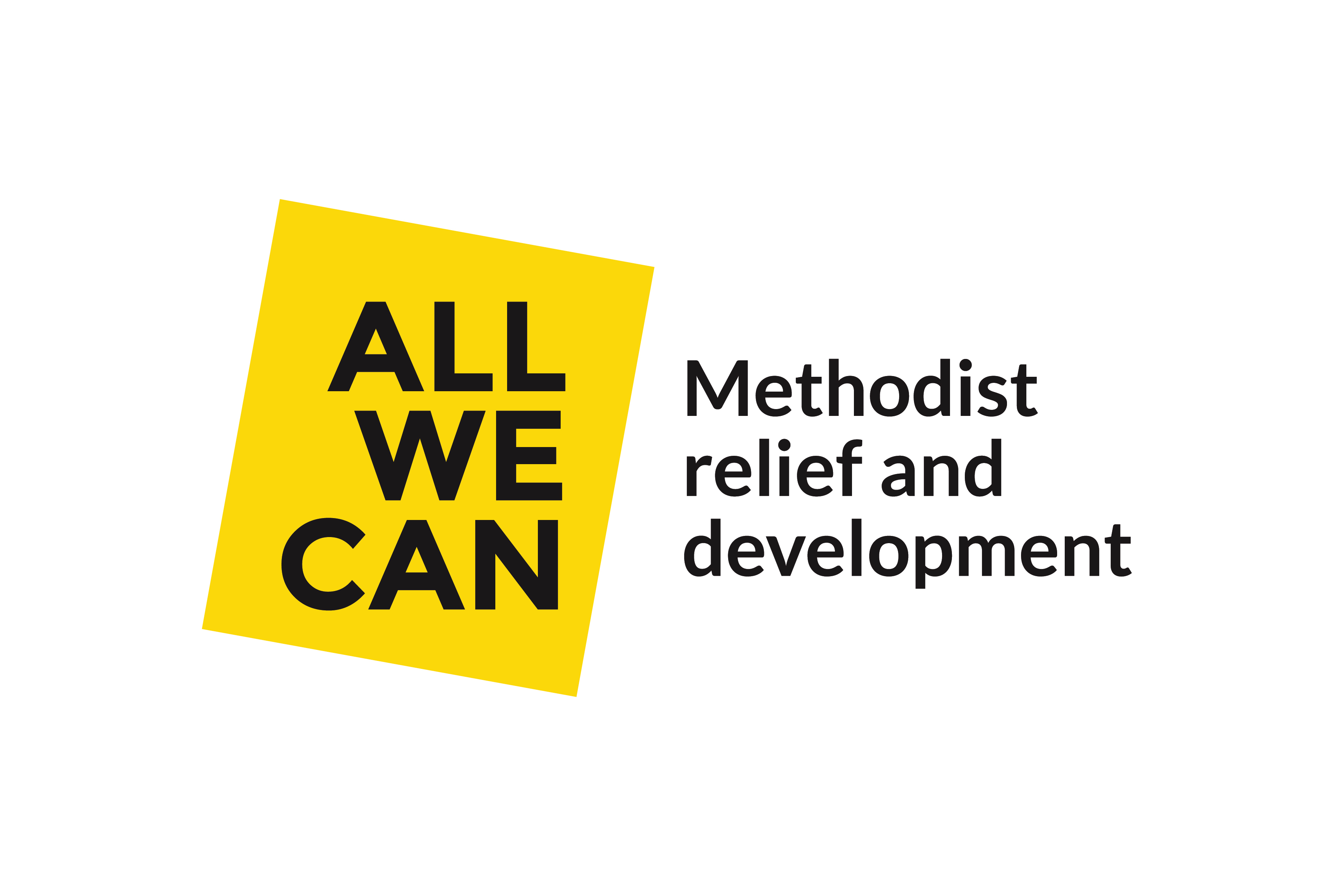 The All We Can logo is known as the lively square